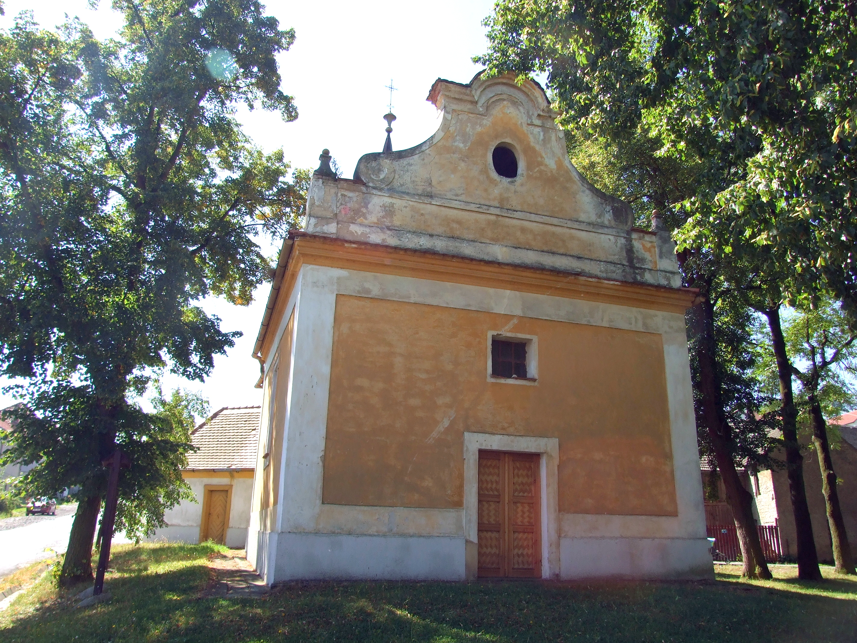 Chapel in Mšecké Žehrovice village in Rakovník district, Central Bohemian region, CZ This photograph was taken within the scope of the 'Czech Municipalities Photographs' grant.